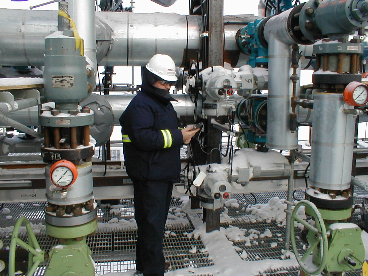 Currently used actuator in Siberia